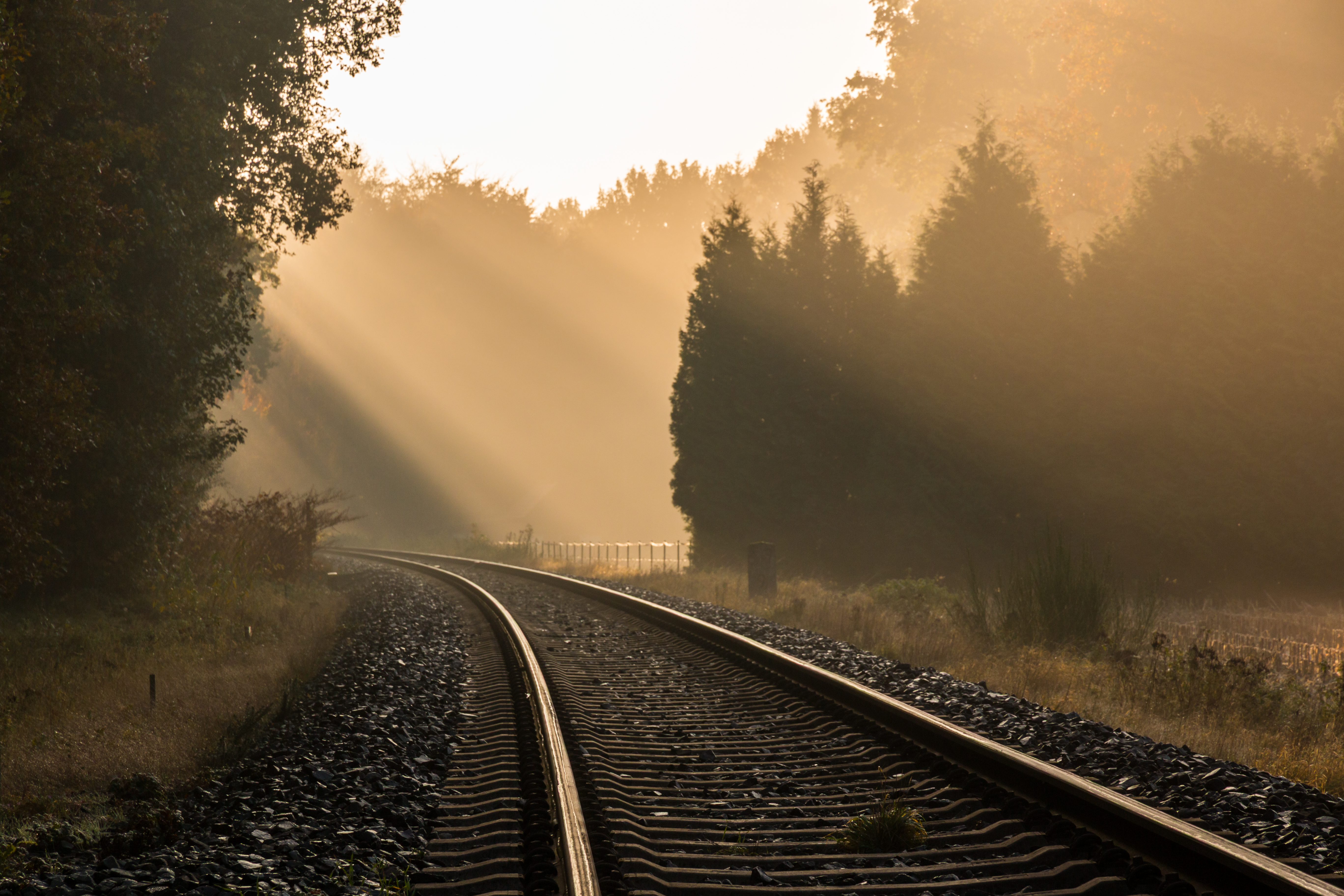 Track of the railway line Dortmund-Enschede (NL) in autumn in the Börnste hamlet, Kirchspiel, Dülmen, North Rhine-Westphalia, Germany;on the left: nature reserve “Franzosenbach” (For your information: The photo was taken from a street.)